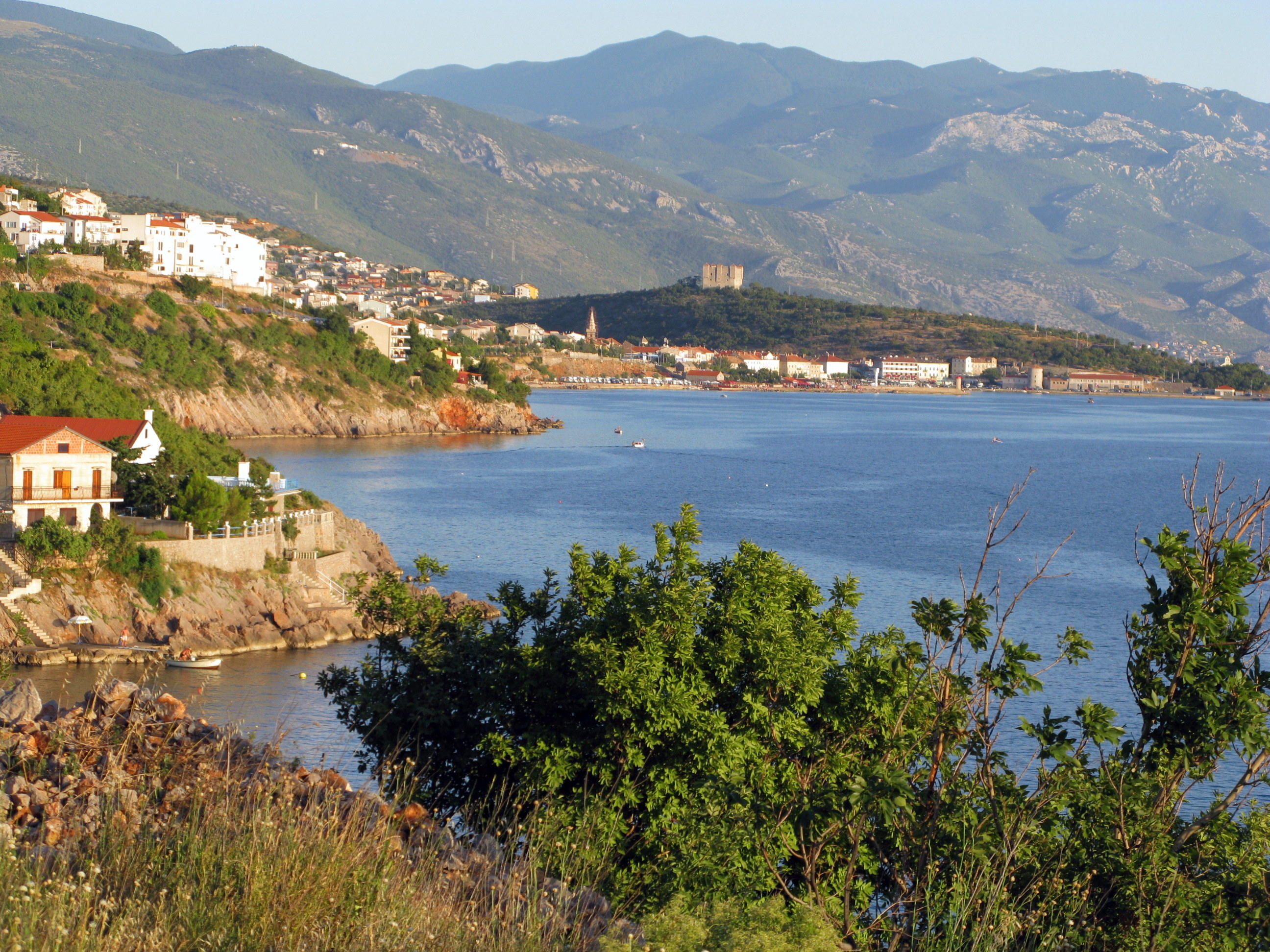 West View of Senj / Croatia / Adriatic Sea at sunset at the entrance.